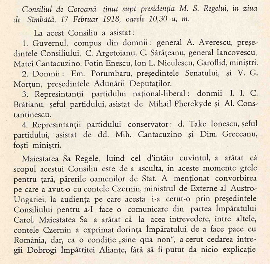 Minutes of the Romanian Council of the Crown from 17 February 1918Română: Proces verbal al Consiliului de Coroană din 17 februarie 1918